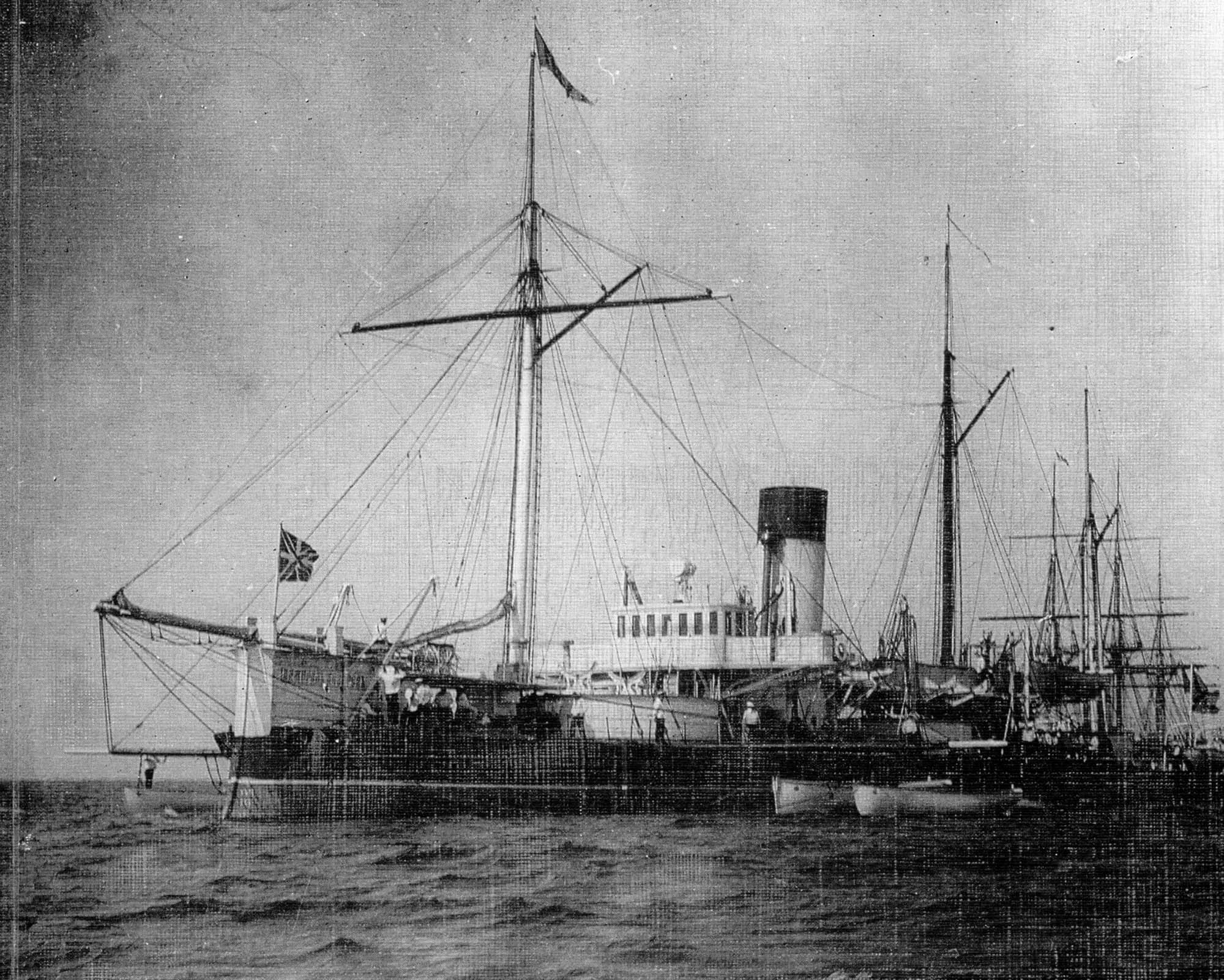 The Imperial Russian triple turret armoured frigate Admiral Lazarev.